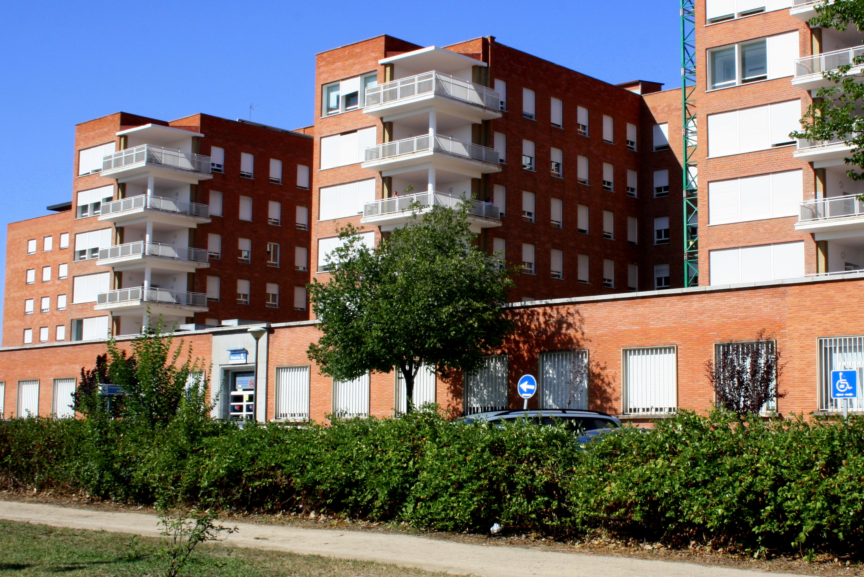 Manuel Sánchez Arcas and Eduardo Torroja, 1928-1936. Set during the war in the front line, when construction was well advanced, was rebuilt by Agustín Aguirre and expanded at a later date.